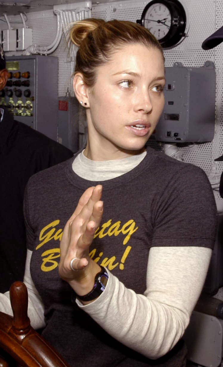 Actress Jessica Biel receives instructions on the ship's helm from Seaman Redding after Ms. Biel completed filming of the Hollywood motion picture Stealth aboard the USS Abraham Lincoln.